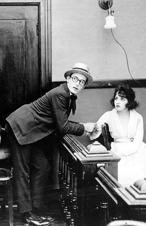 Harold Lloyd and Bibi Daniels in the movie "Ask father" (1919).